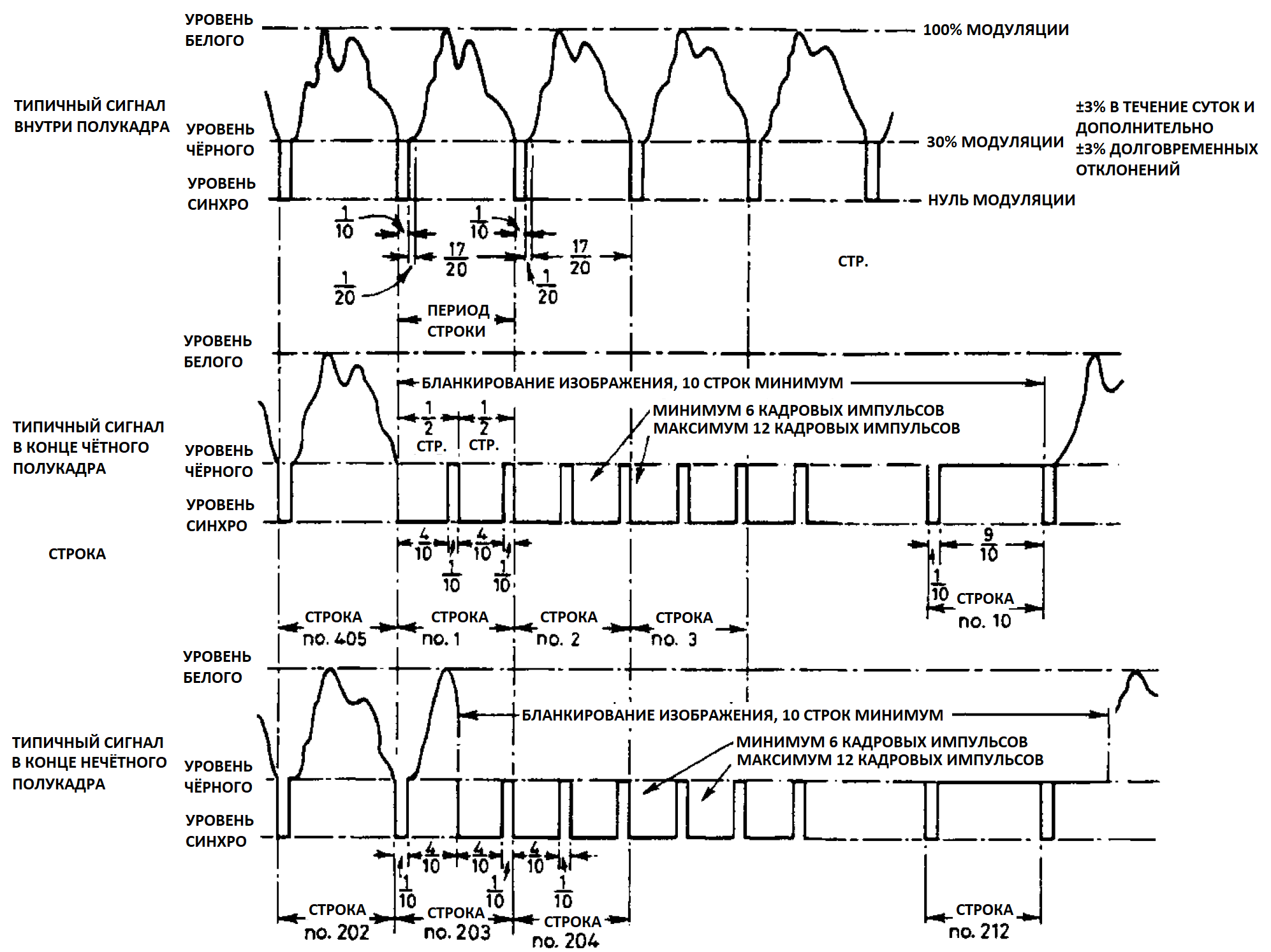 The Blumlein wafeform - early British standard of video signal, proposed by A. D. Blumlein and enacted by the Television Advisory Committee in 1936 - in operation till 1986.